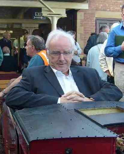 Pete Waterman sitting at the controls of the Stapleford Miniature Railways new East African loco in October 2008 during the unveiling and new station opening ceremony.